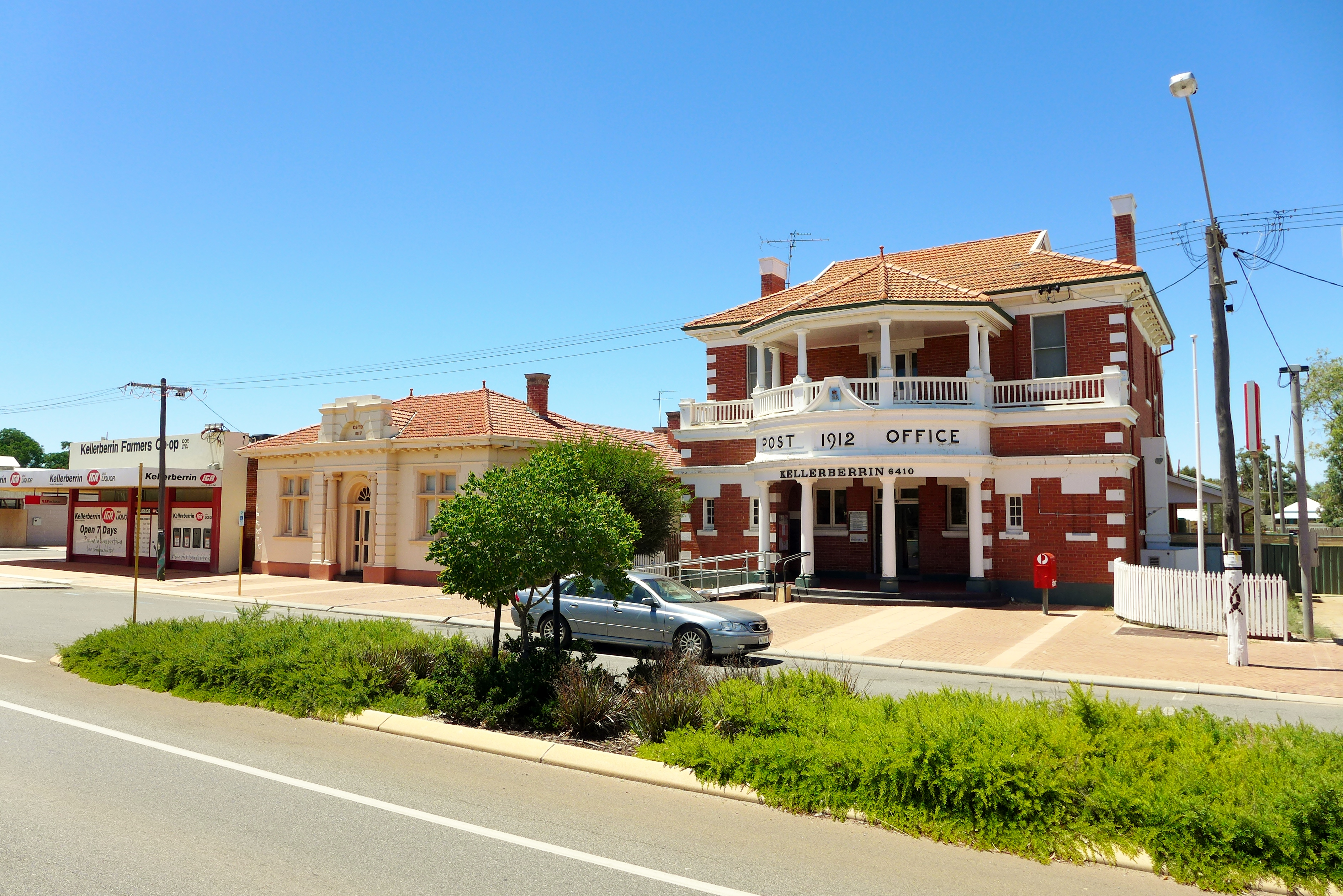 View of Massingham Street, which is part of Great Eastern Highway, Kellerberrin, Western Australia. The buildings are (L-R) Kellerberrin Farmers Co-op, the former Bank of New South Wales, and the Kellerberrin Post Office.